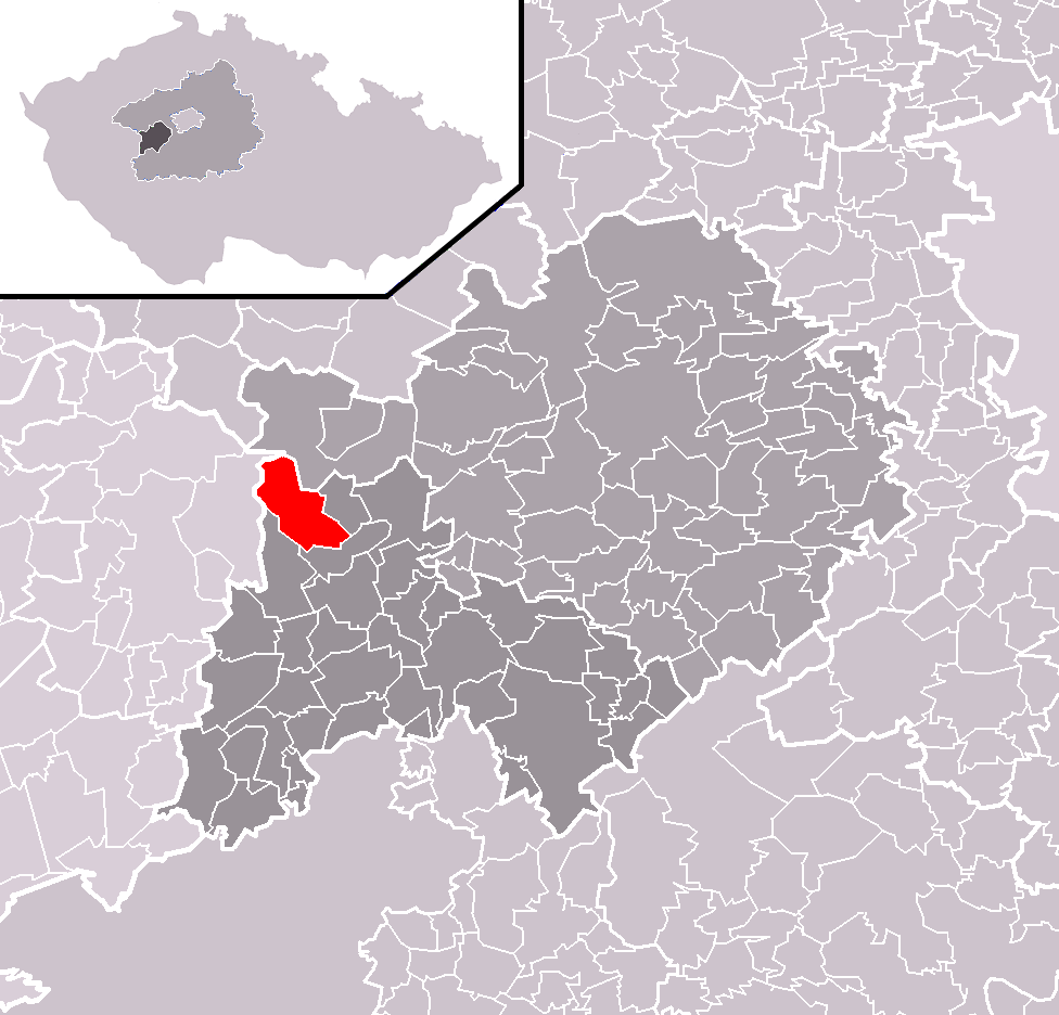 Location of Bzová municipality within Beroun District and administrative area of Hořovice as a Municipality with Extended Competence.